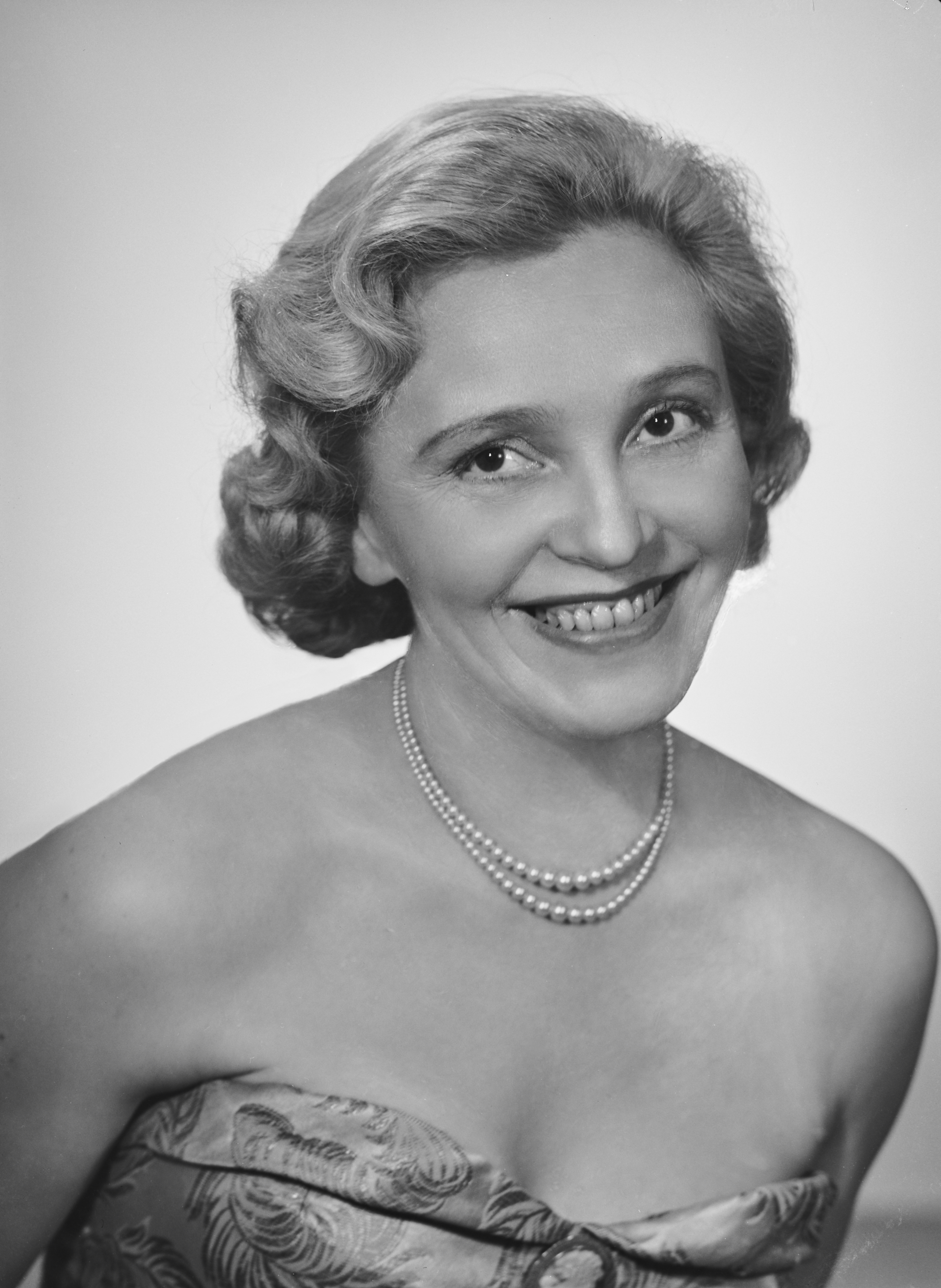 Photograph of the Finnish actress Ansa Ikonen (1913–1989).